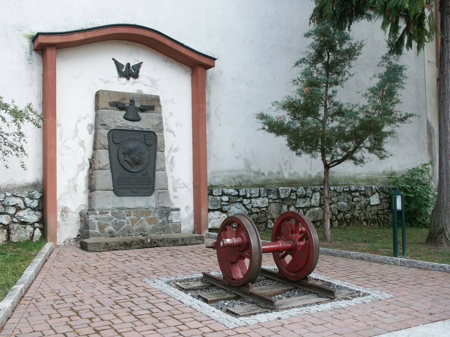 Memorial for the builders of the Mariazellerbahn in Mariazell, Styria